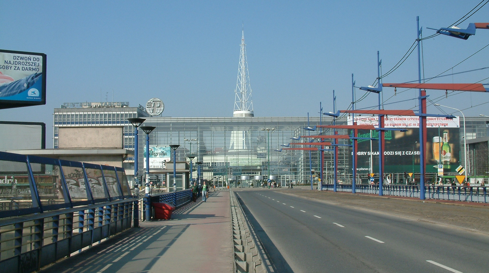 Poznan International Fair - viev from Dworcowy bridge